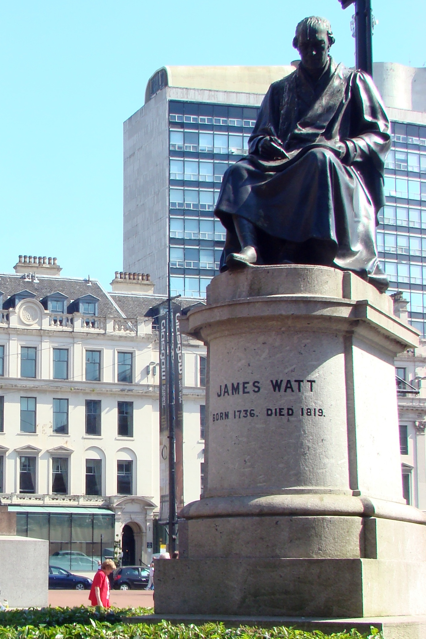 Statue of James Watt, George Square, Glasgow, Scotland